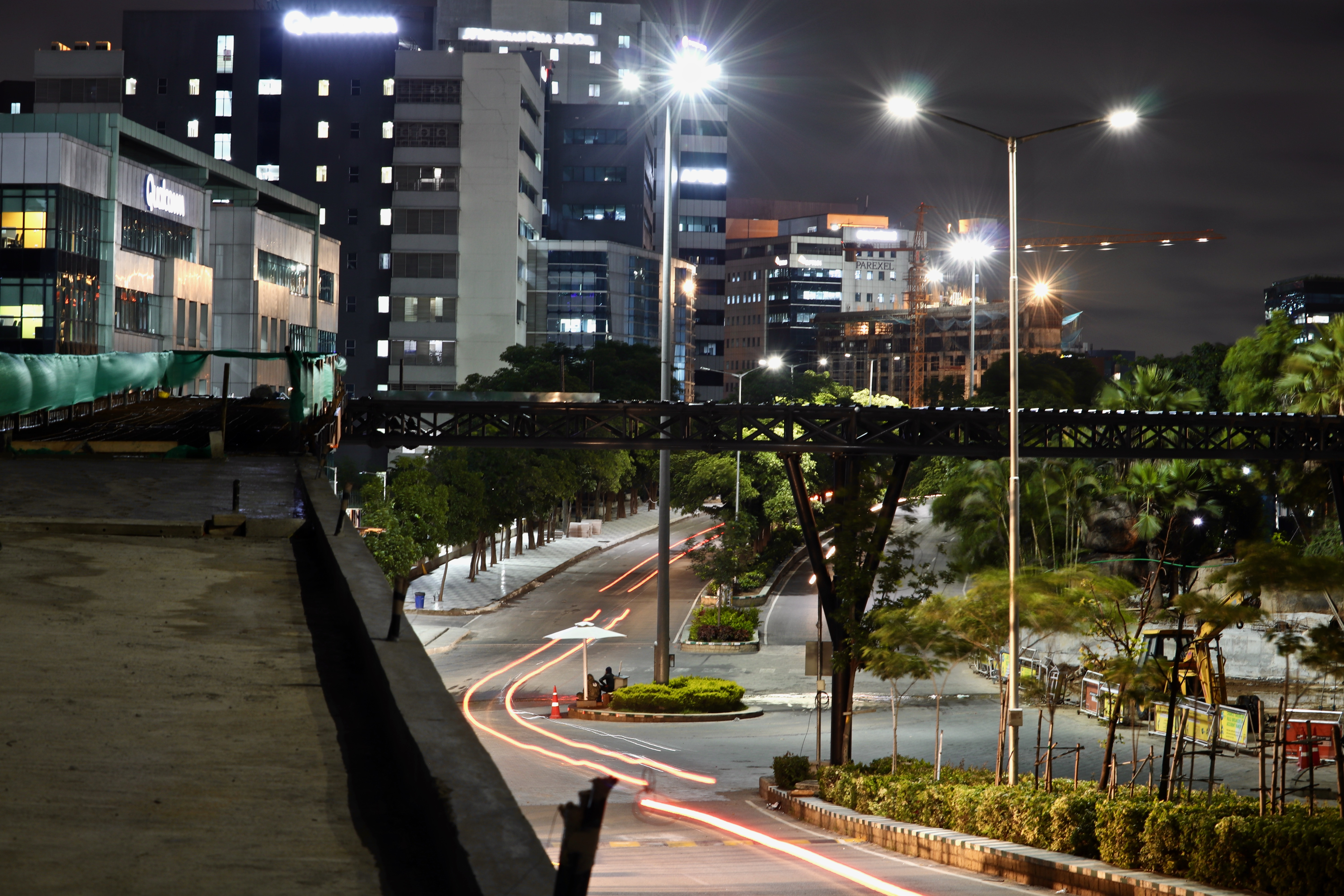 Mindspace Madhapur road captured from a Pedestrian overpass under construction